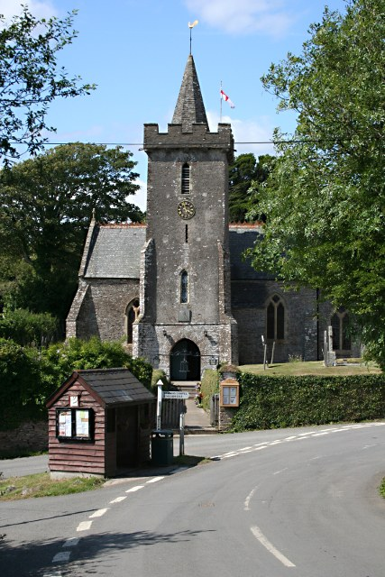 All Hallows' parish church, Ringmore, Devon, seen from the south